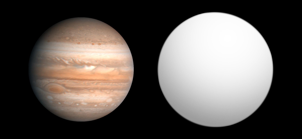 Comparison of best-fit size of the exoplanet HR 8799 b with the Solar System planet Jupiter, as reported in the Open Exoplanet Catalogue[1] as of 2015-11-14. ↑ Open Exoplanet Catalogue (2015-11-14). Retrieved on 2015-11-14.